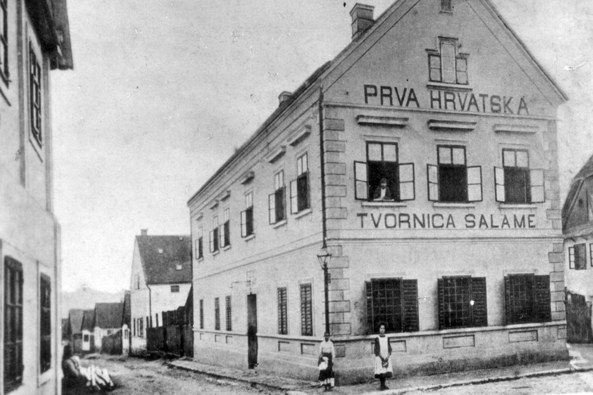 Prva tvornica salame Gavrilović